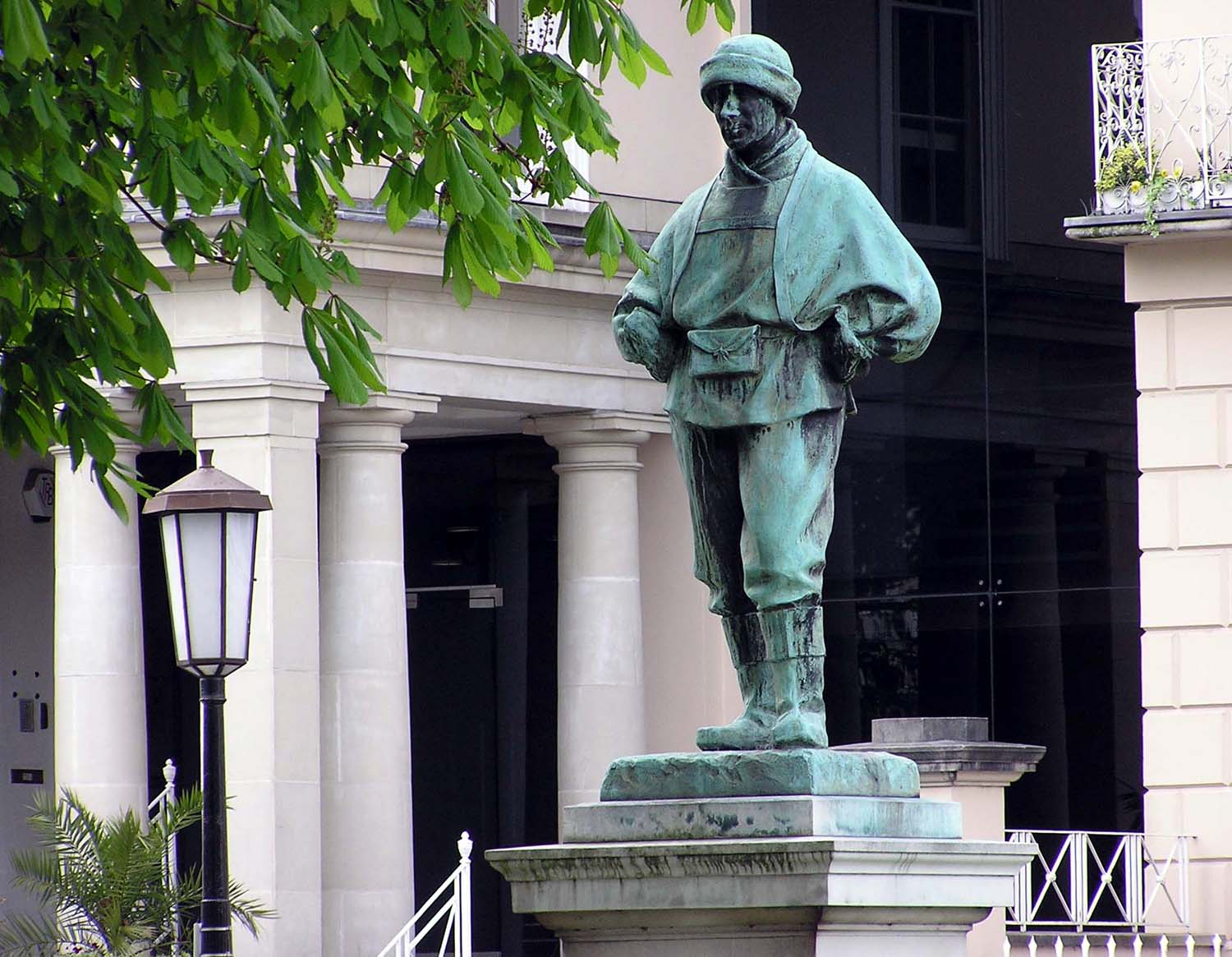 Statue of Edward Wilson, the Antarctic explorer, in Cheltenham town centre. Born in 1872, he died in 1912 in Antarctica. The plinth reads: Edward Wilson of the British Antarctic Expedition reached the South Pole on January 17th 1912 and died with Captain Scott on the Great Ice Barrier in March 1912. Photographed by Adrian Pingstone in April 2005 and released to the public domain.